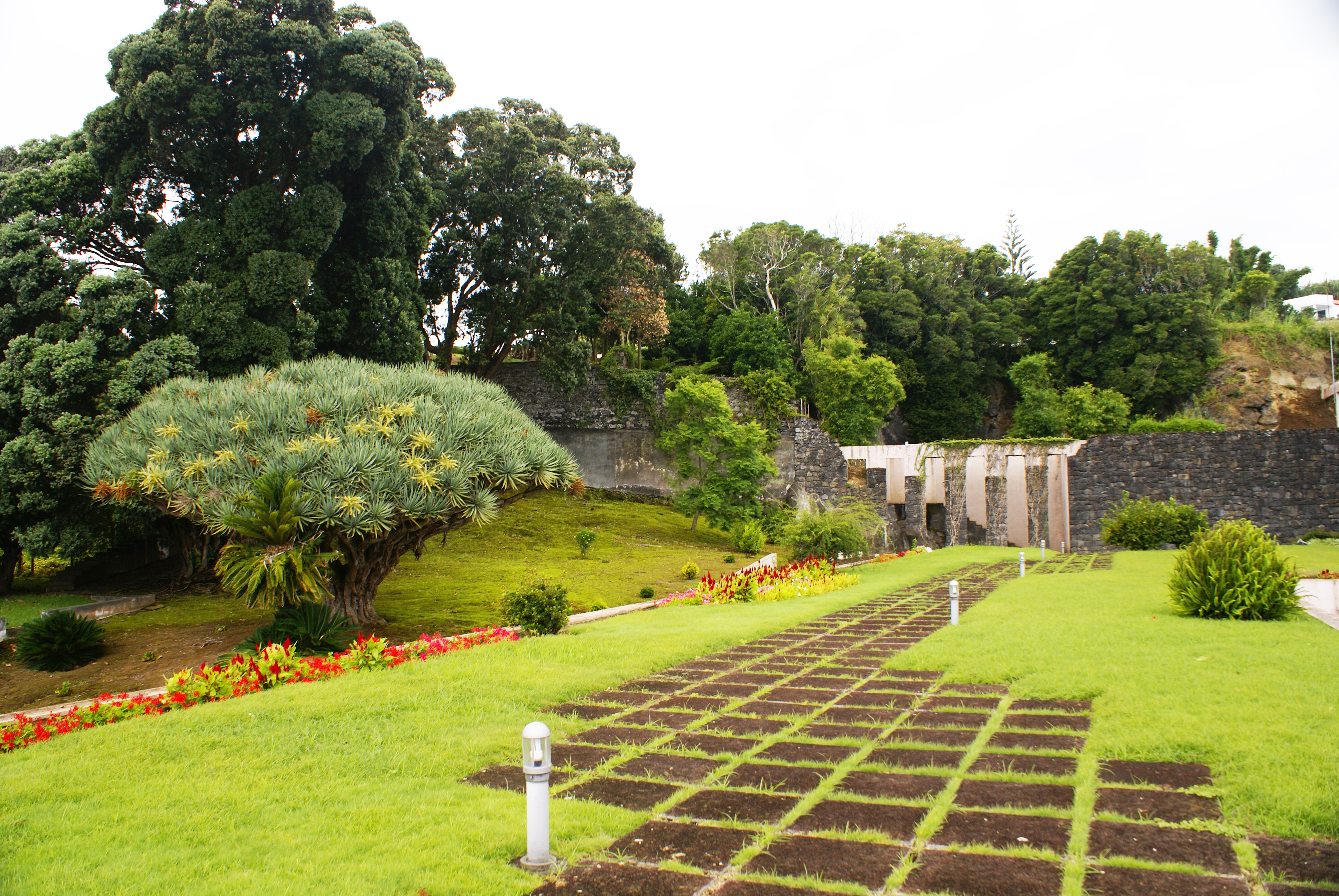 The manicured gardens and lawn at the Legislative Assembly of the Autonomous Region of the Azores, Horta, Faial (Azores), Portugal